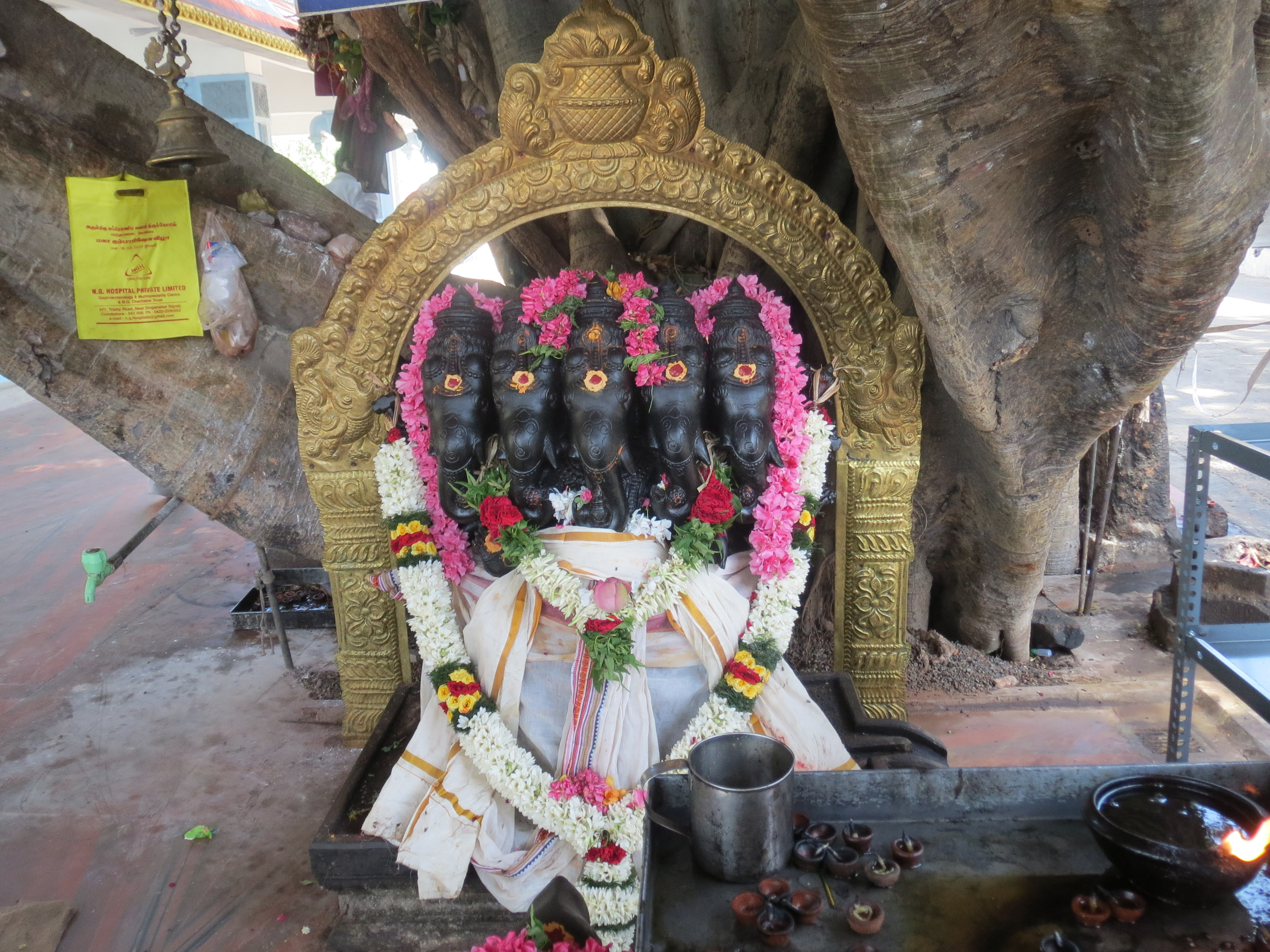 Maruthamalai Temple Pancha virutcha Vinayagar. Tamil:மருதமலை கோயில் பஞ்ச விருட்ச விநாயகர்.